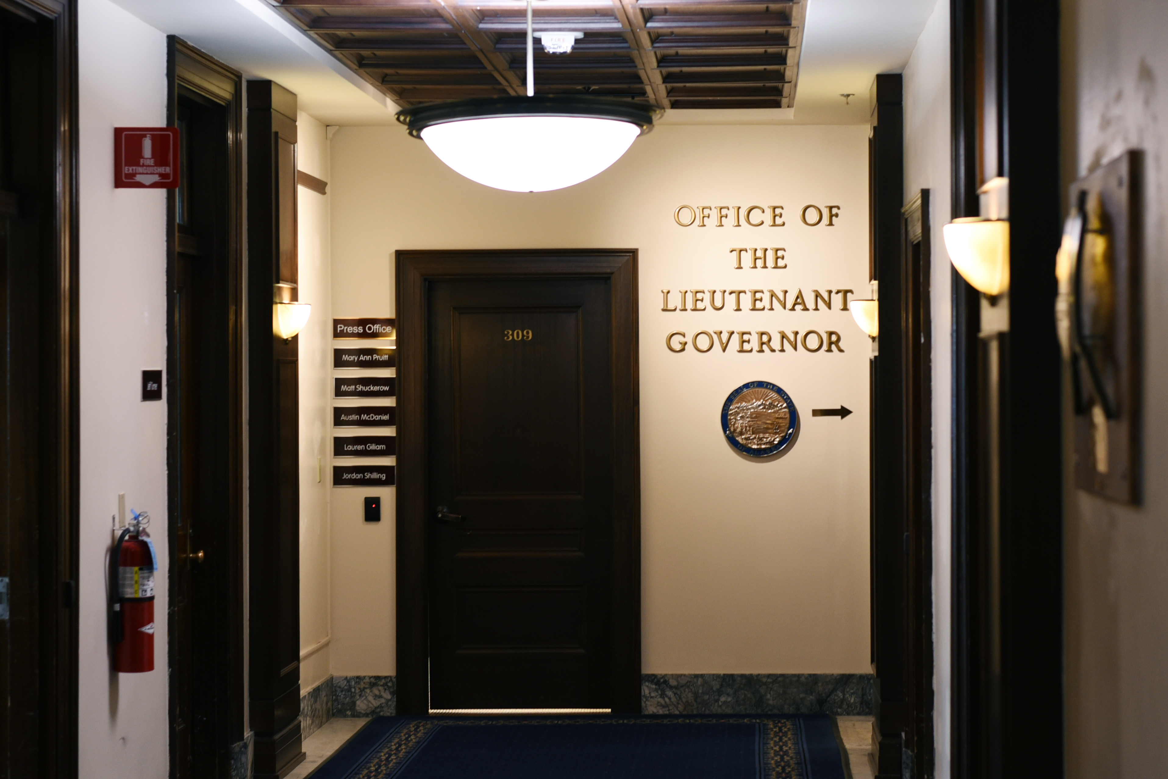 This photo is provided under a Creative Commons Attribution license. Please provide the following credit: "Photo used under Creative Commons license courtesy Paxson Woelber, The Alaska Landmine"